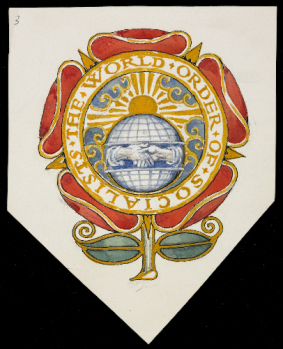 Walter Crane drawn emblem for "The World Order of Socialists". The heraldic shield is substituted for the rose, which at the same time functions as a kind of mantling. The handshake, typical for trade union iconography, stretches over the entire globe, divided in rational quadrangles. The sun is rising. Emblem was made by Walter Crane before his death on March 14, 1915.